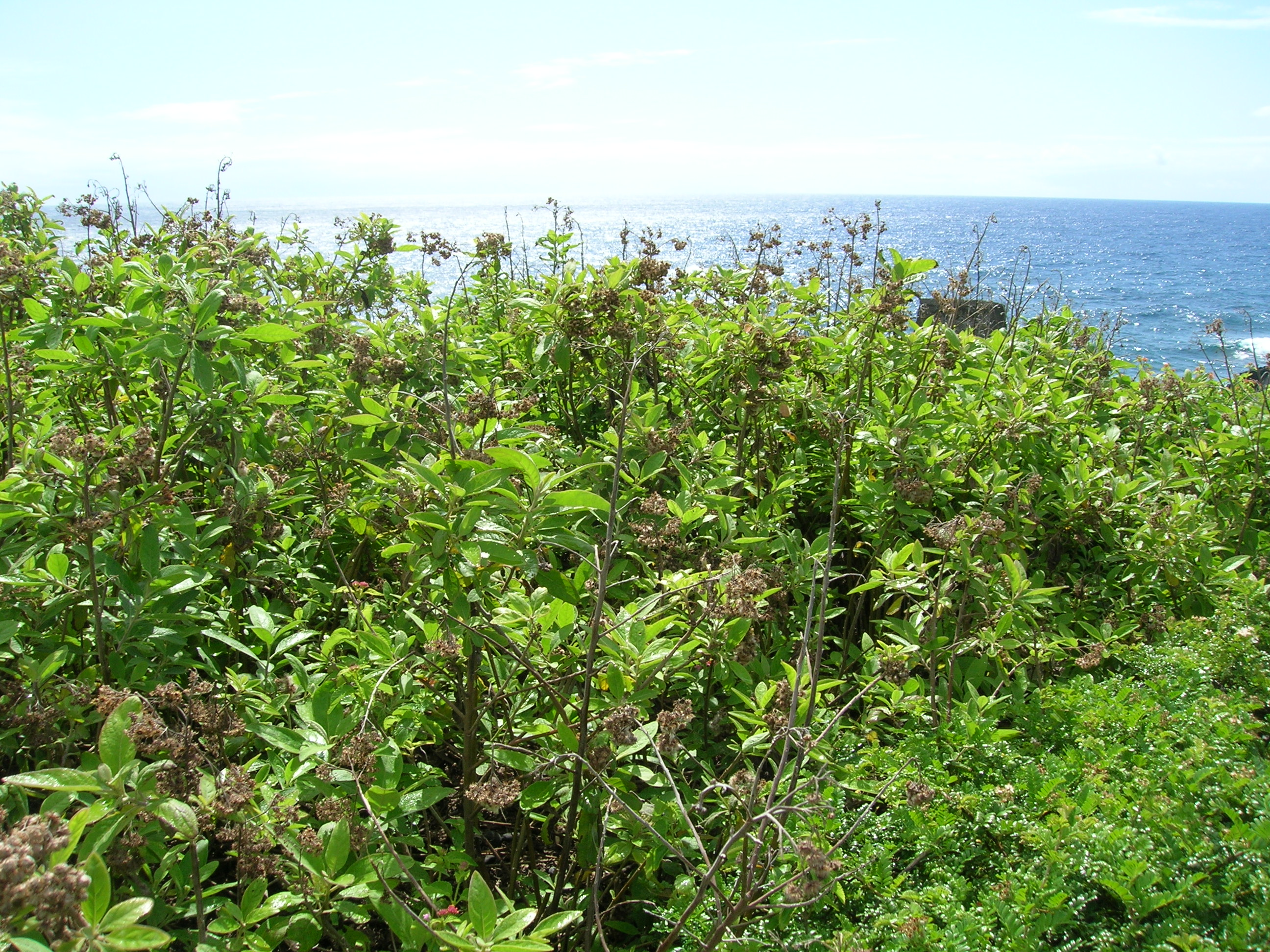 Pluchea carolinensis (habit). Location: Maui, Puu Ku